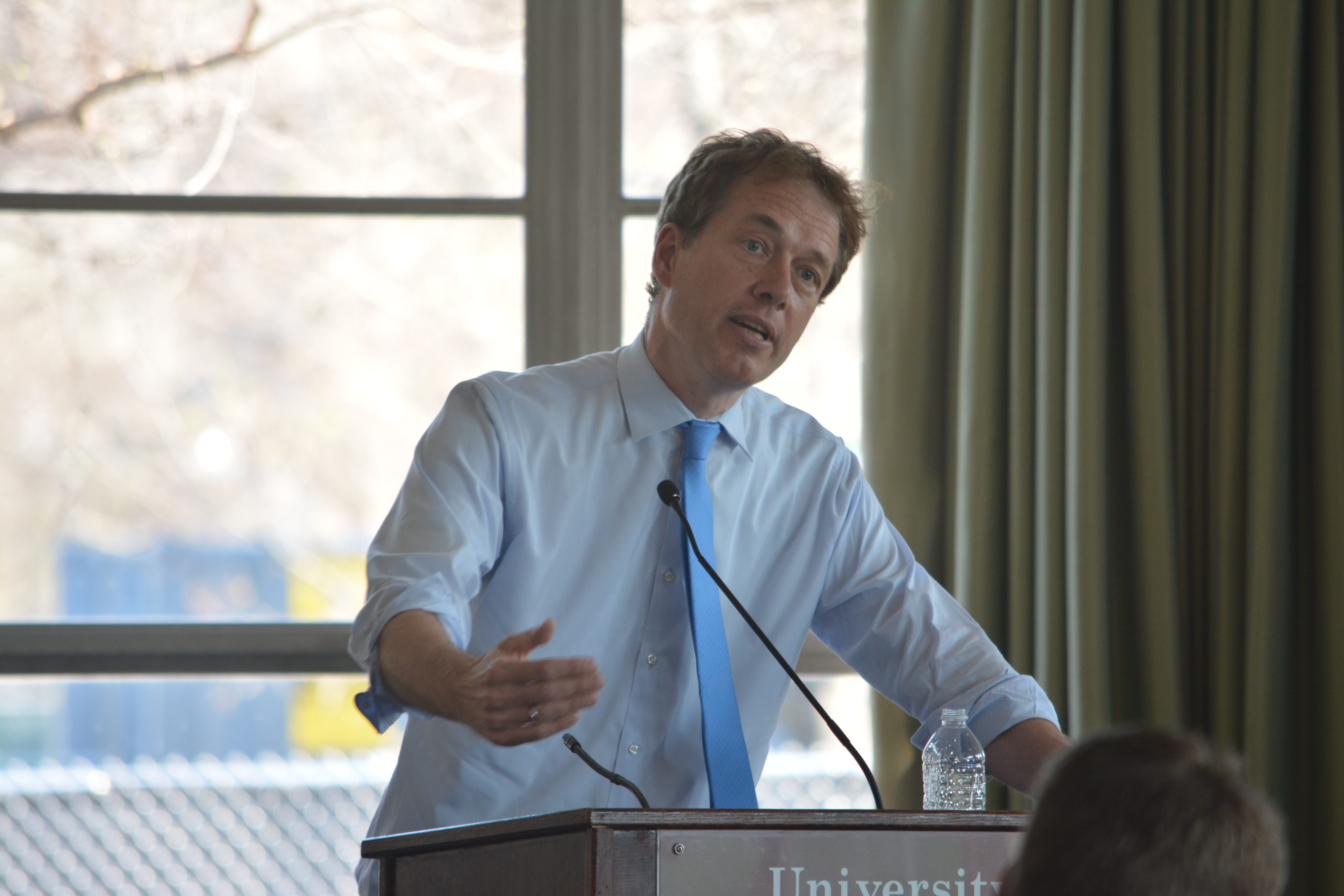 Sven Beckert, Laird Professor of History of Harvard University, speaks on the global origins of capitalism in the Cape Cod Lounge on April 21.